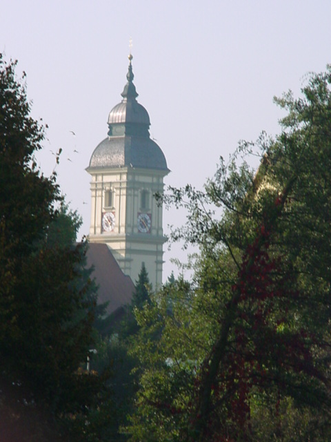 The church tower in Altenerding, Bavaria, Germany.